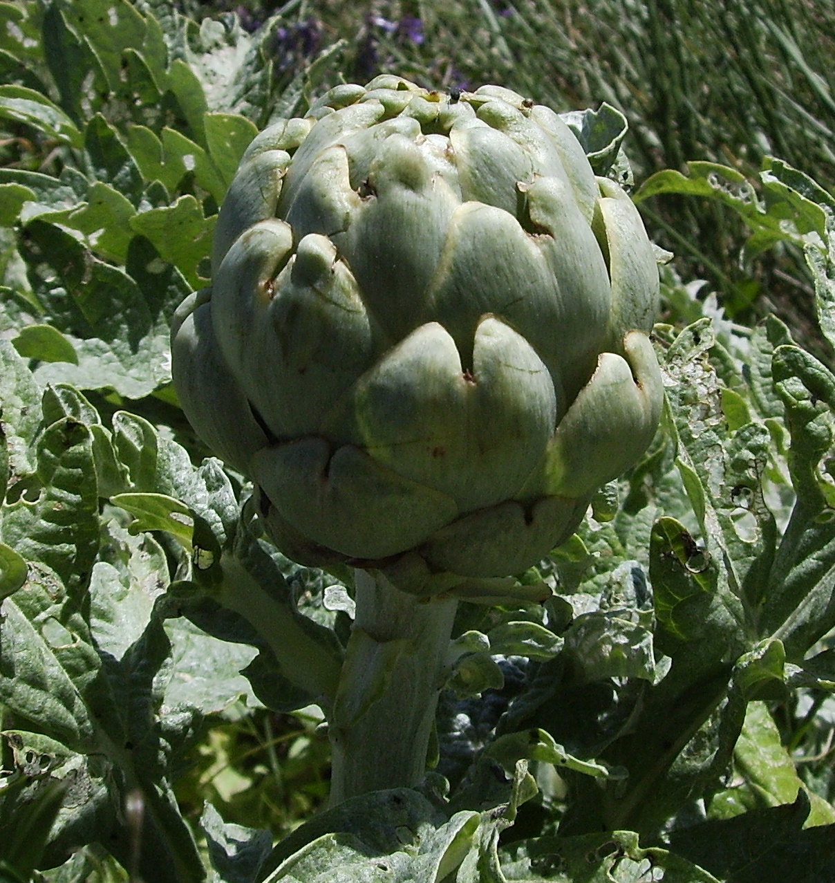 Artichoke plant (Cynara cardunculus), Castelltallat, Catalonia